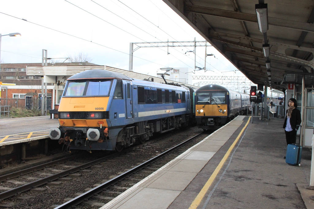 90006 calls at Colchester in Essex with a London to Norwich service, and is passed by 360111 which is on a Clacton to London service.